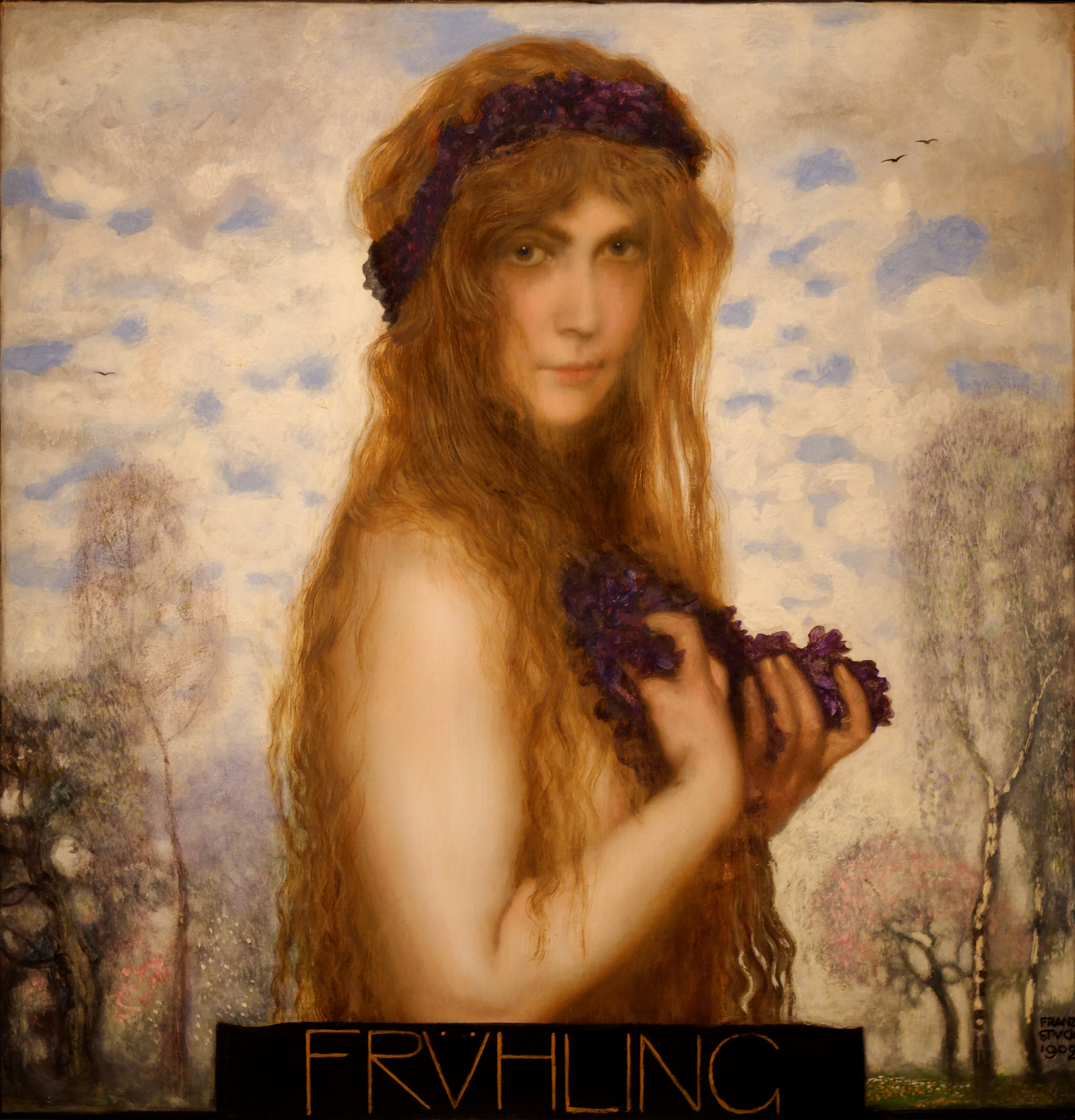 The Spring, Franz von Stuck (1902). Gift of Conte Dénes Andrássy, 1911. Budapest Museum of Fine Art. Inv. N° 224 B